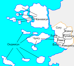 Administative division of Incheon in Russian language.